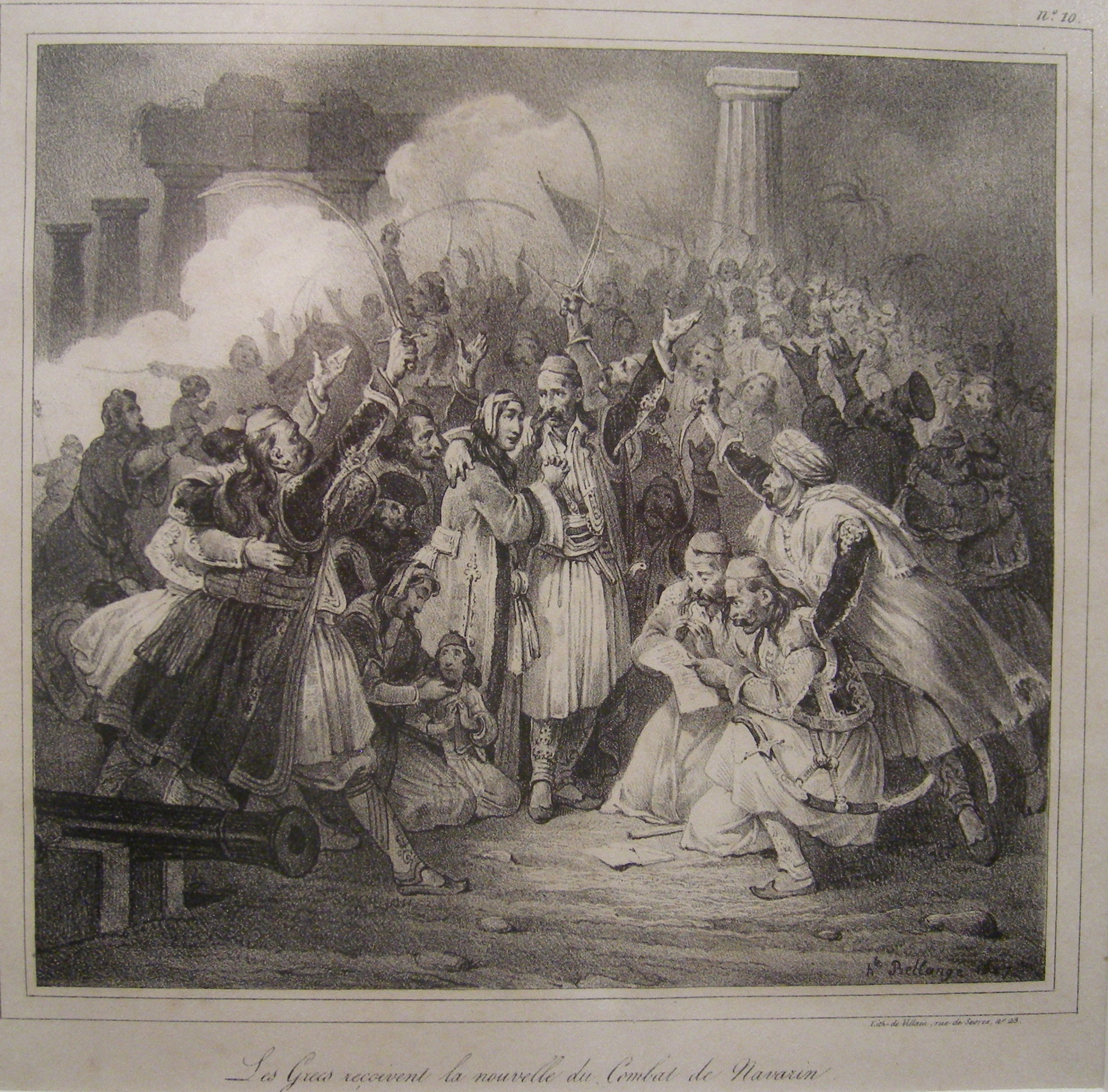 Les Grecs reçoivent la nouvelle du combat de Navarin, gravure de 1827. The Greeks hear of the battle of Navarino, 1827 engraving.